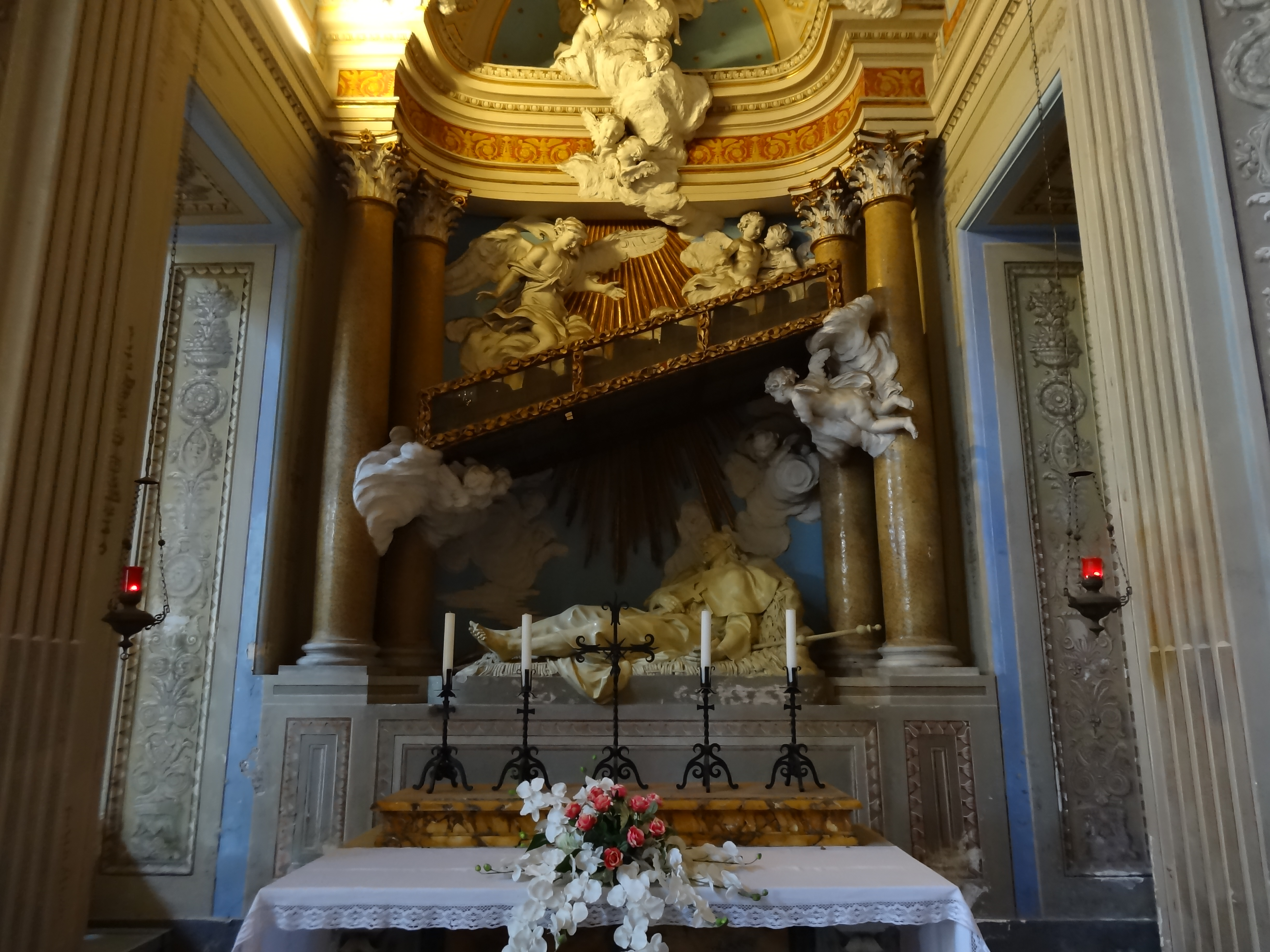 sant'alessio tomb